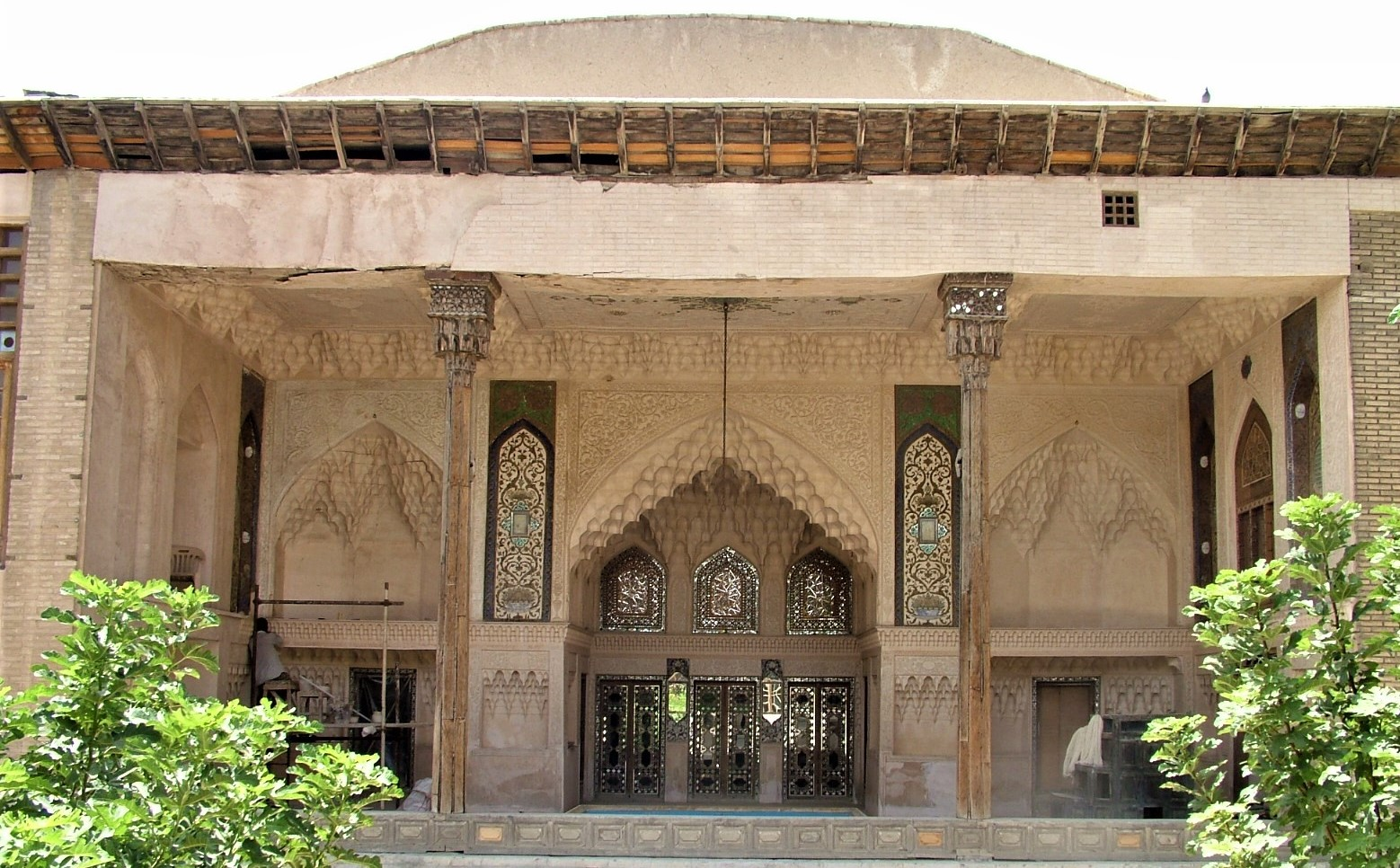 House of Sheikholeslam from Safavid and Qajar eras, residence of Muhammad Baqir Sabzevari, Sheikholeslam of Esfahan, registered as one of Iran's National Heritage sites in 1974